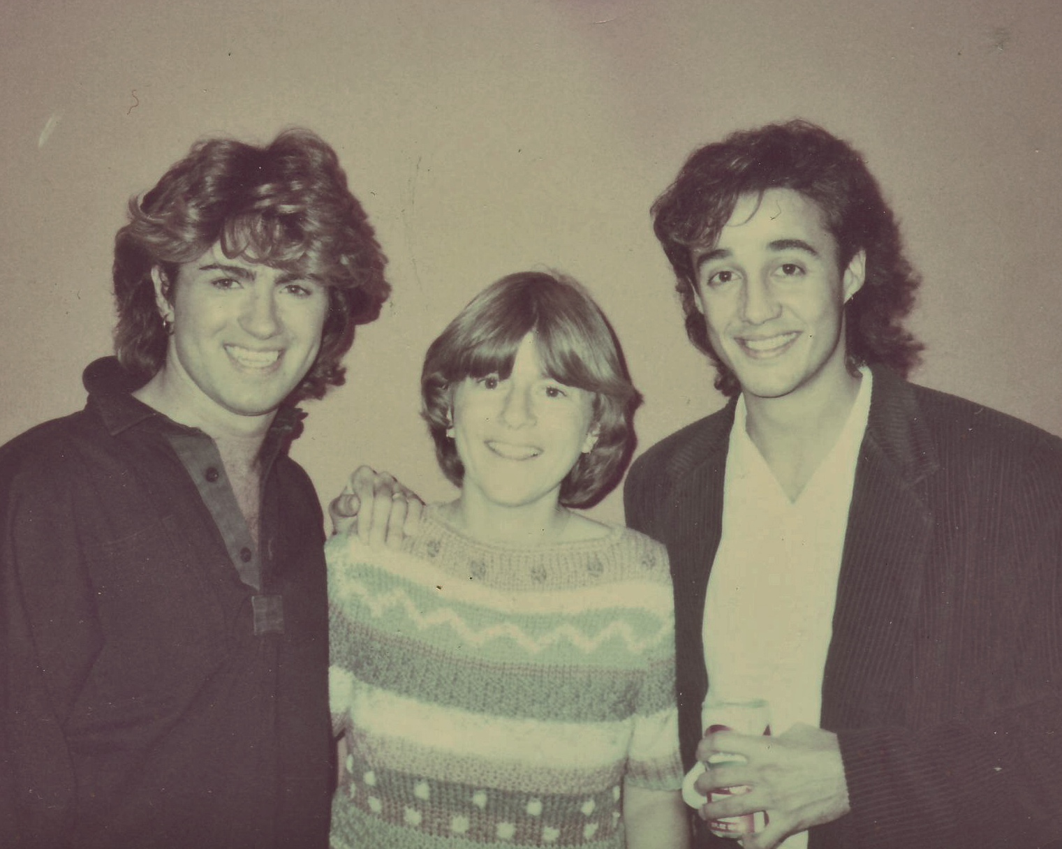 From left to right: George Michael (Wham!), Louise Palanker and Andrew Ridgeley (Wham!).